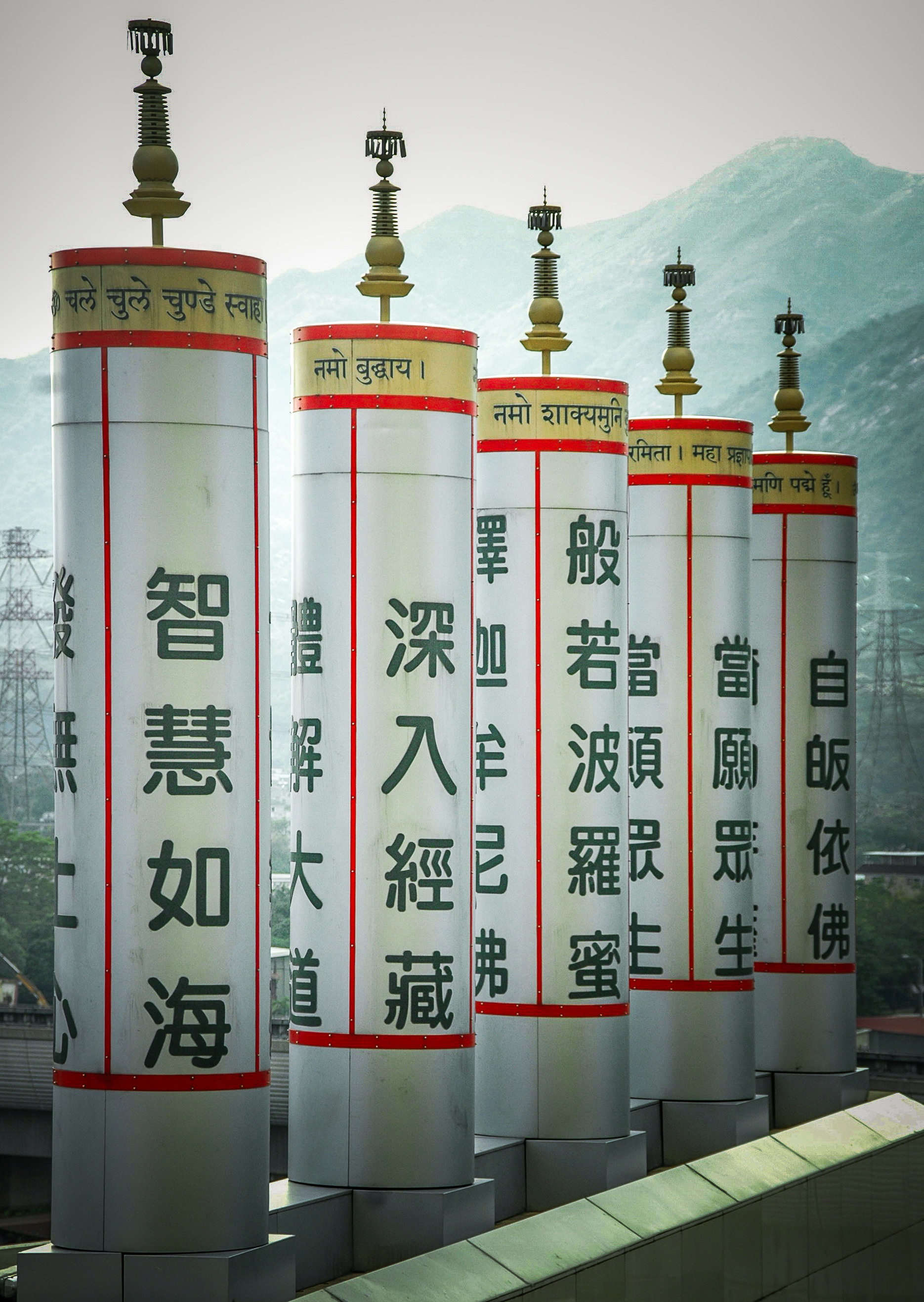 Huge prayer wheels located on top of a building in Miu Fat Buddhist Monastery, Hong Kong.